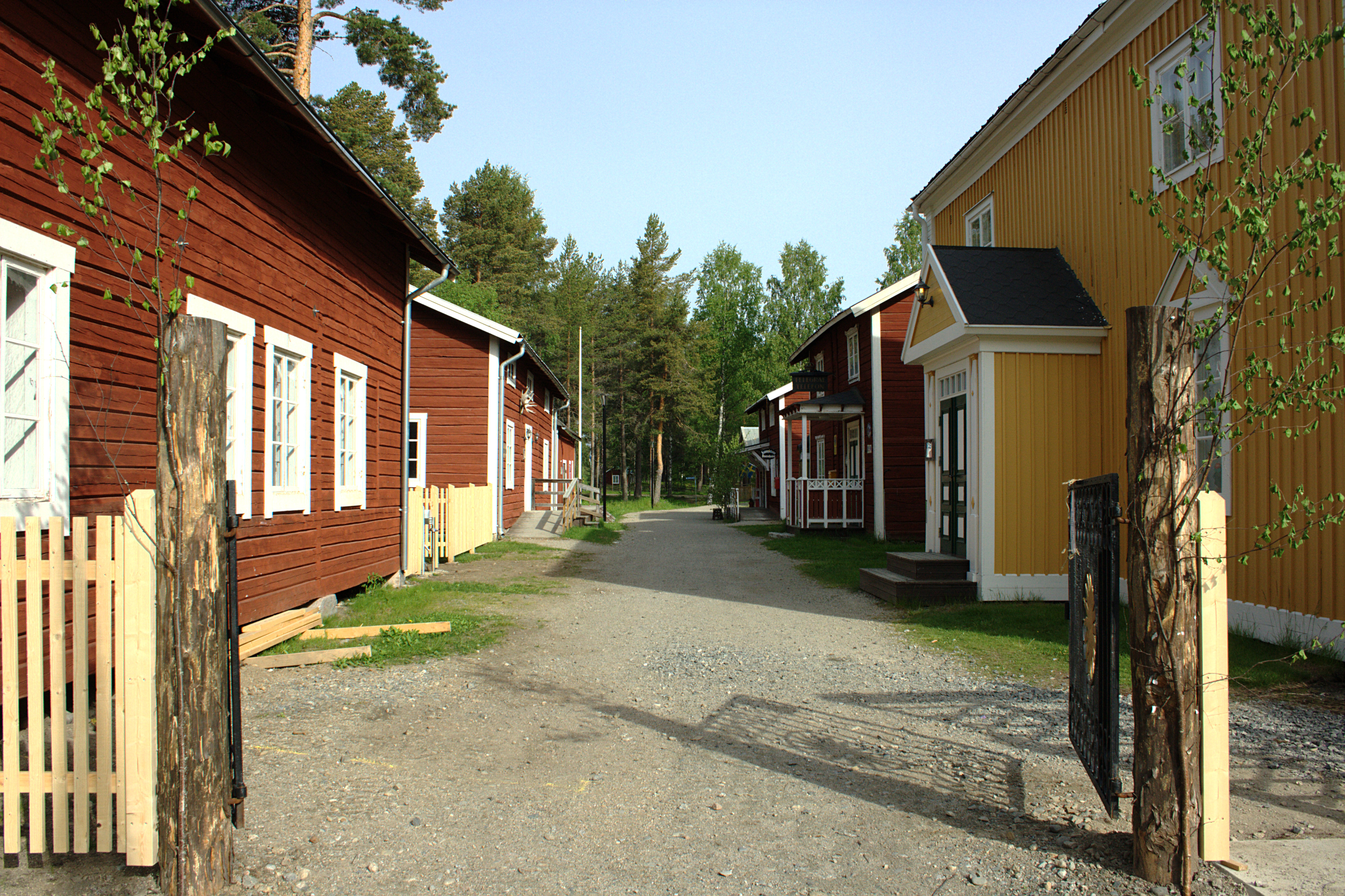 The "Old Site" in Lycksele